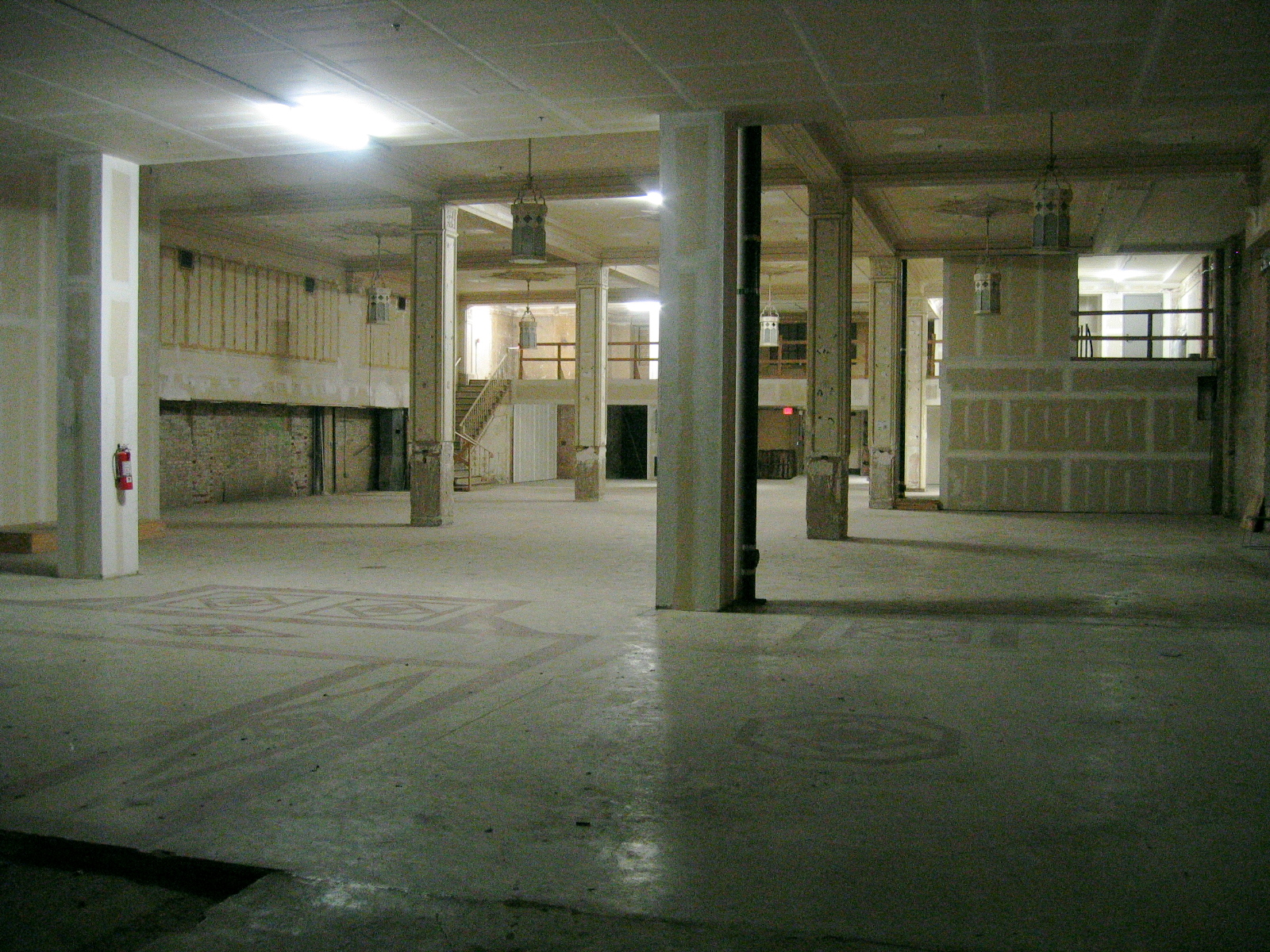 a loft in San Antonio